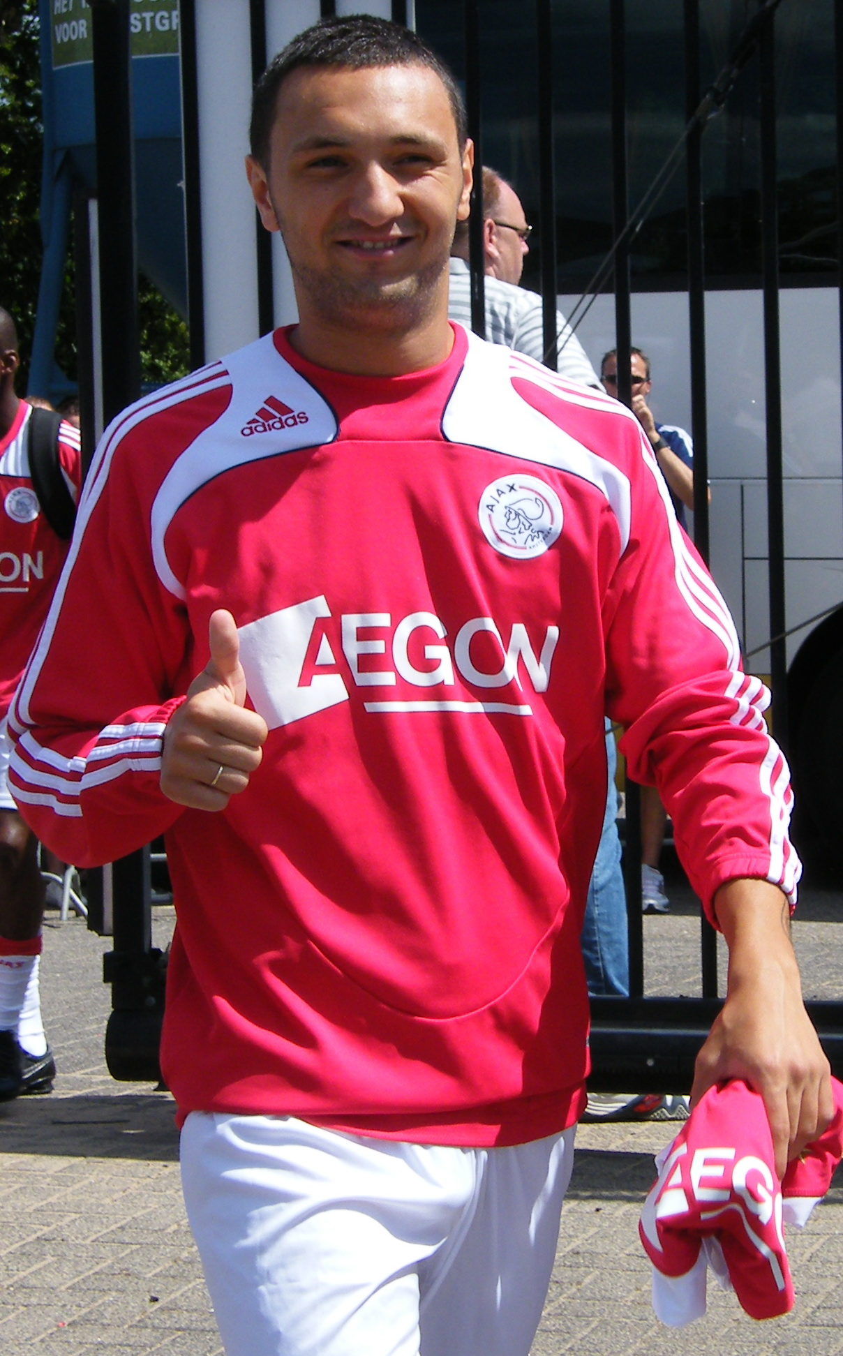 Darko Bodul; image cropped from File:Darko-Bodul Ajax1nl.JPG.